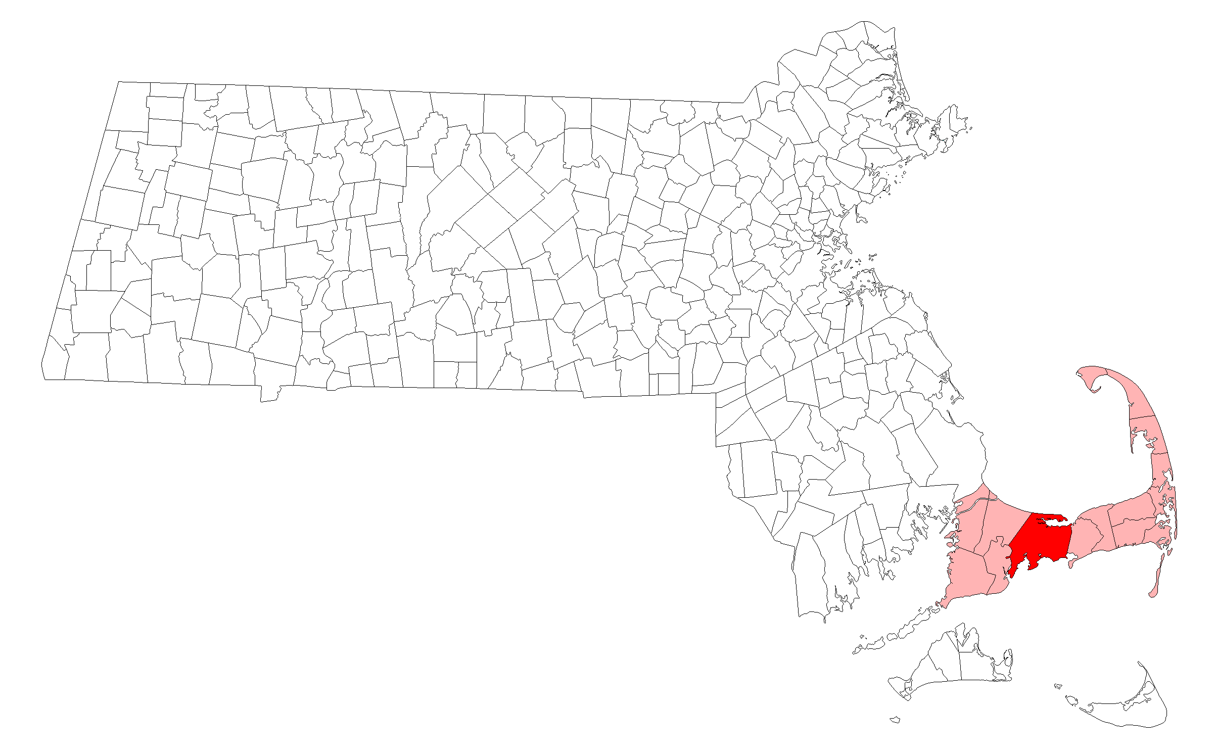 Barnstable's location within Barnstable County, MA